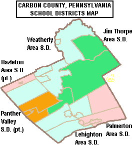 Map of Carbon County, Pennsylvania, United States Public School Districts